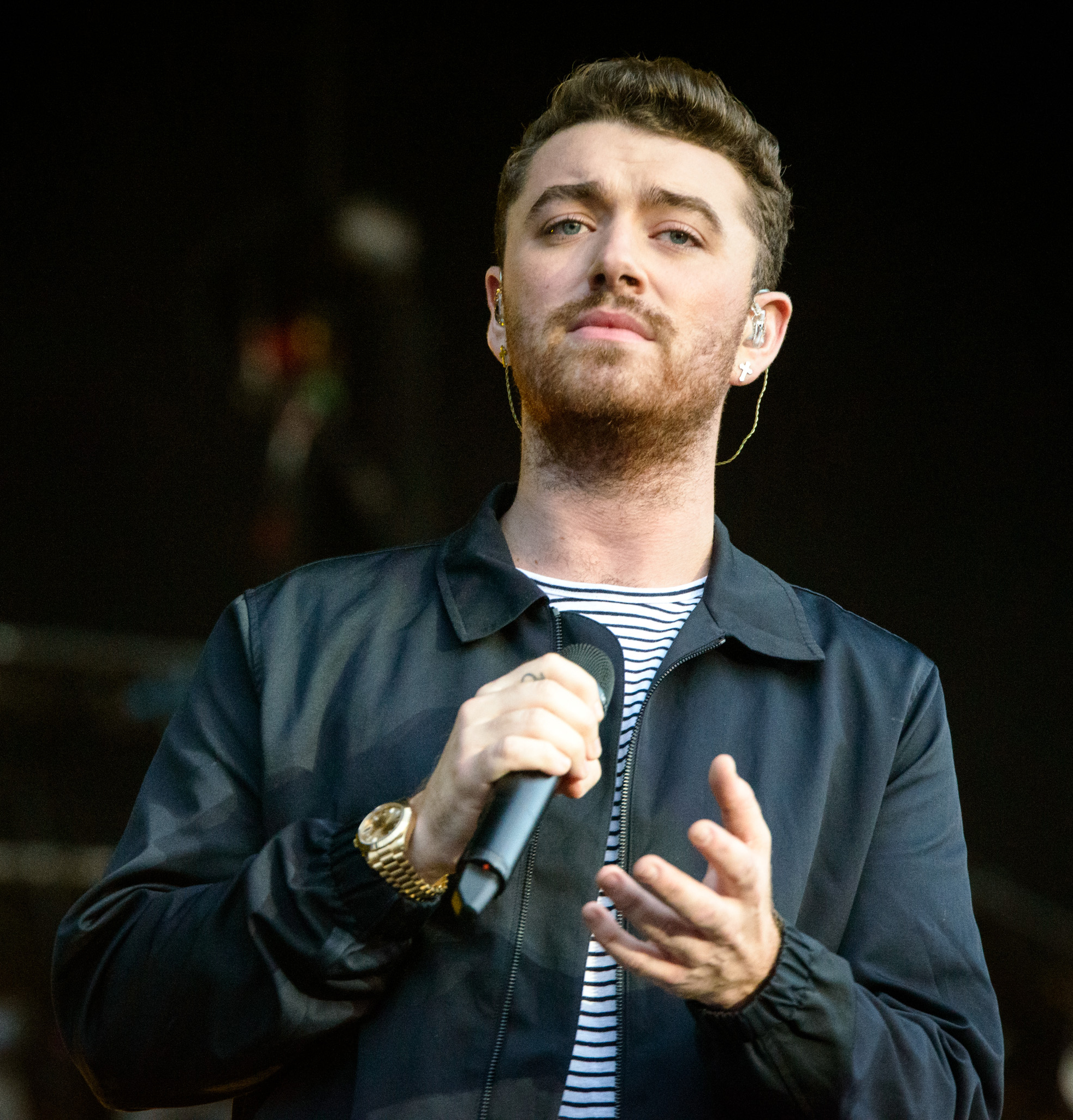 Sam Smith @ Lollapalooza 2015